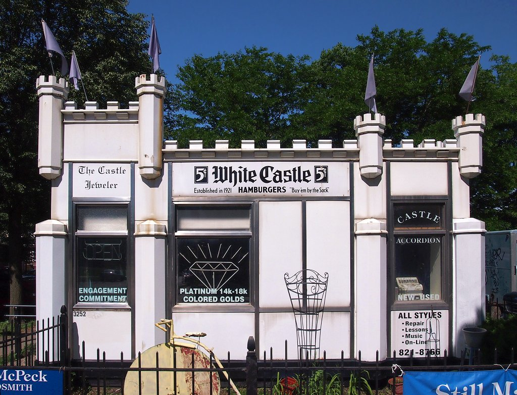 White Castle Building No. 8 (now The Castle Jeweler and Castle Accordion), 3252 Lyndale Ave. S., Minneapolis, Minnesota, USA. Viewed from the east atop a stepstool.